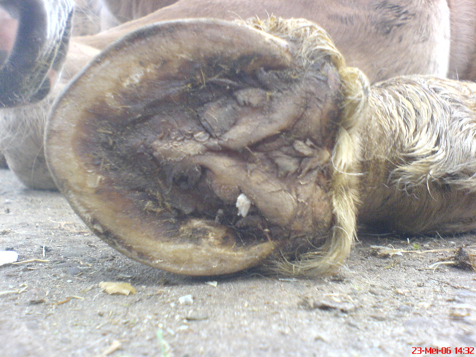 A foal's hoof.